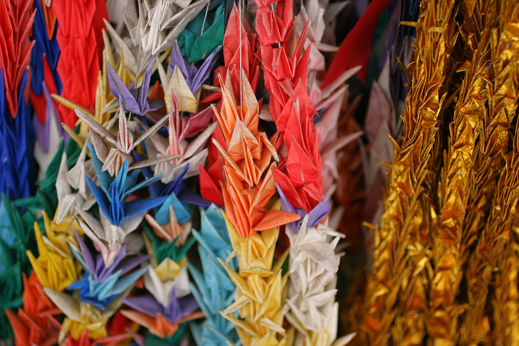 Shinto origami offerings in a temple.